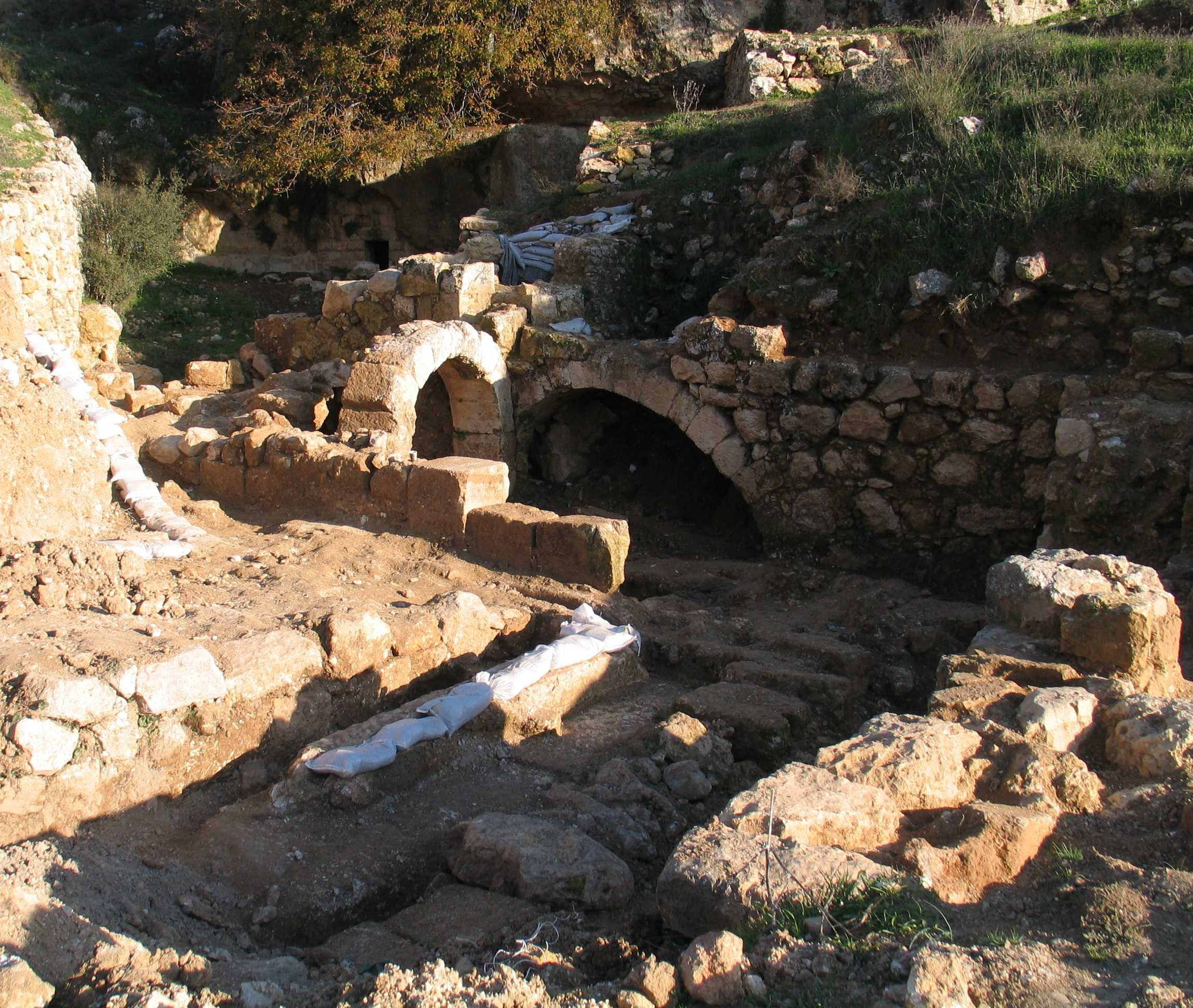 Ein el-Haniya spring southwest of Jerusalem, Israel.